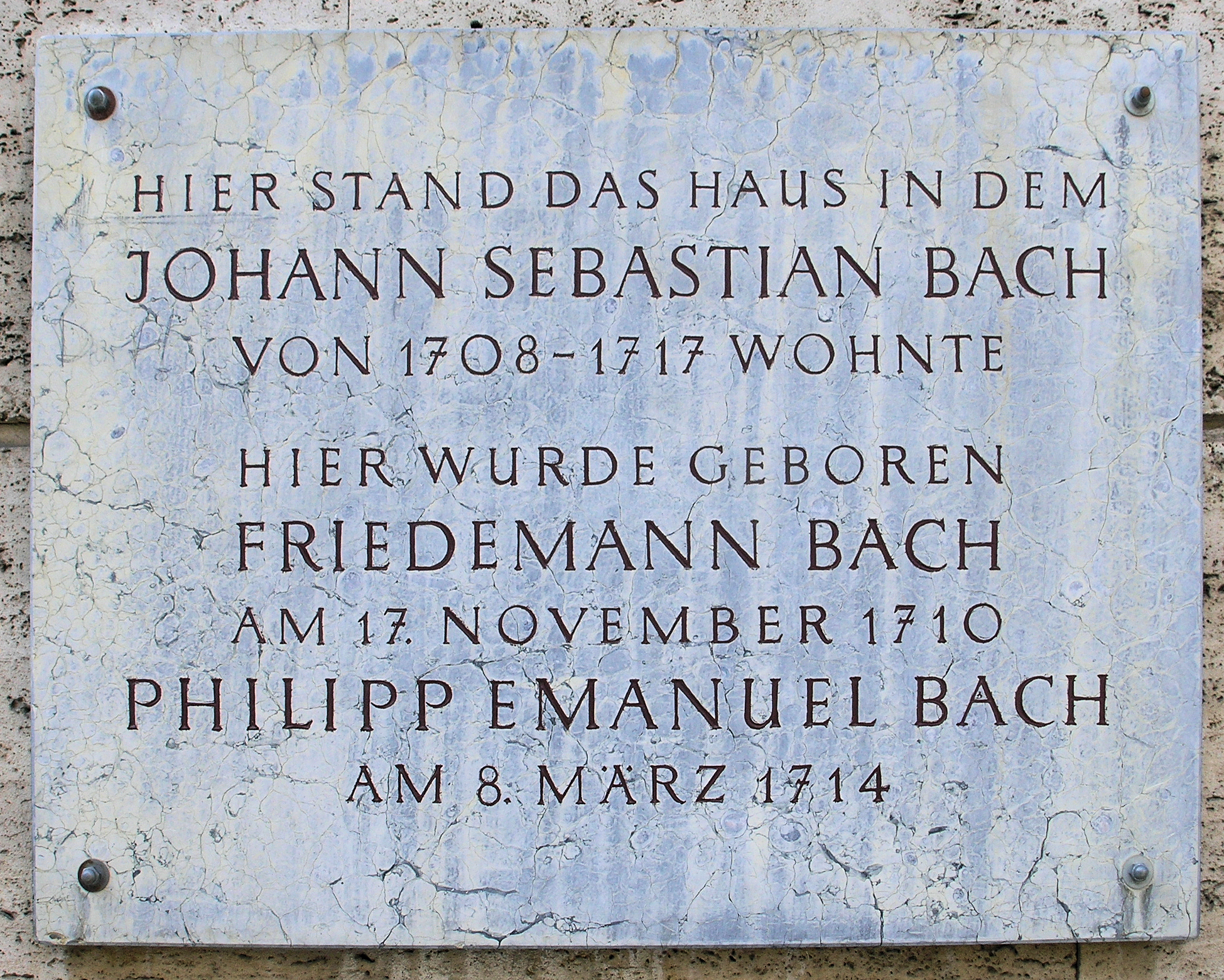 Memorial plaque, Johann Sebastian Bach, Wilhelm Friedemann Bach, Carl Philipp Emanuel Bach, Markt 18, Weimar, Germany